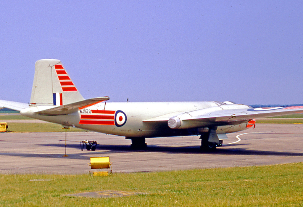 English Electric Canberra T.4 WJ870 of 231 OCU at RAF Cottesmore in 1970